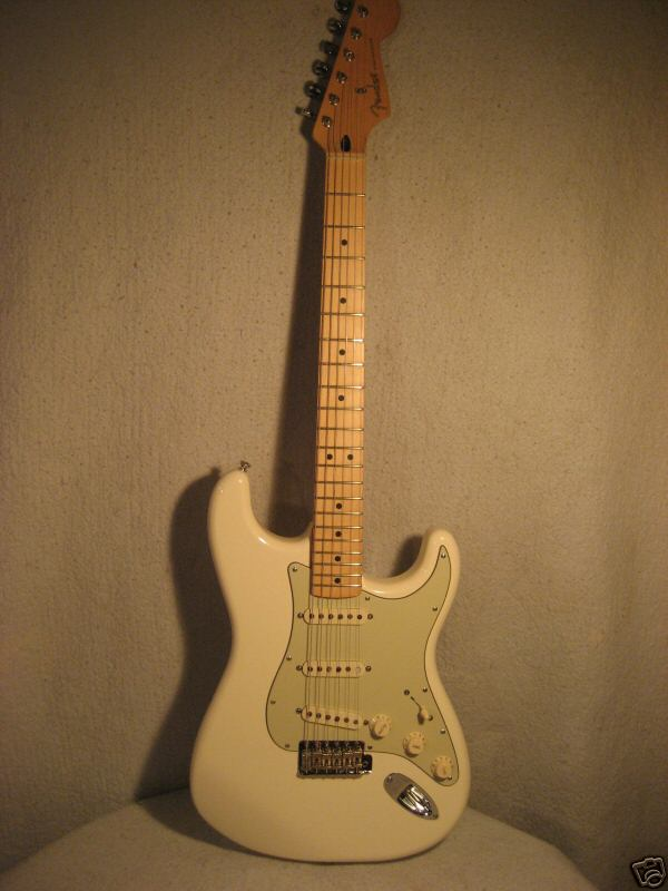 'Jimmie Vaughan Tex-Mex Stratocaster'